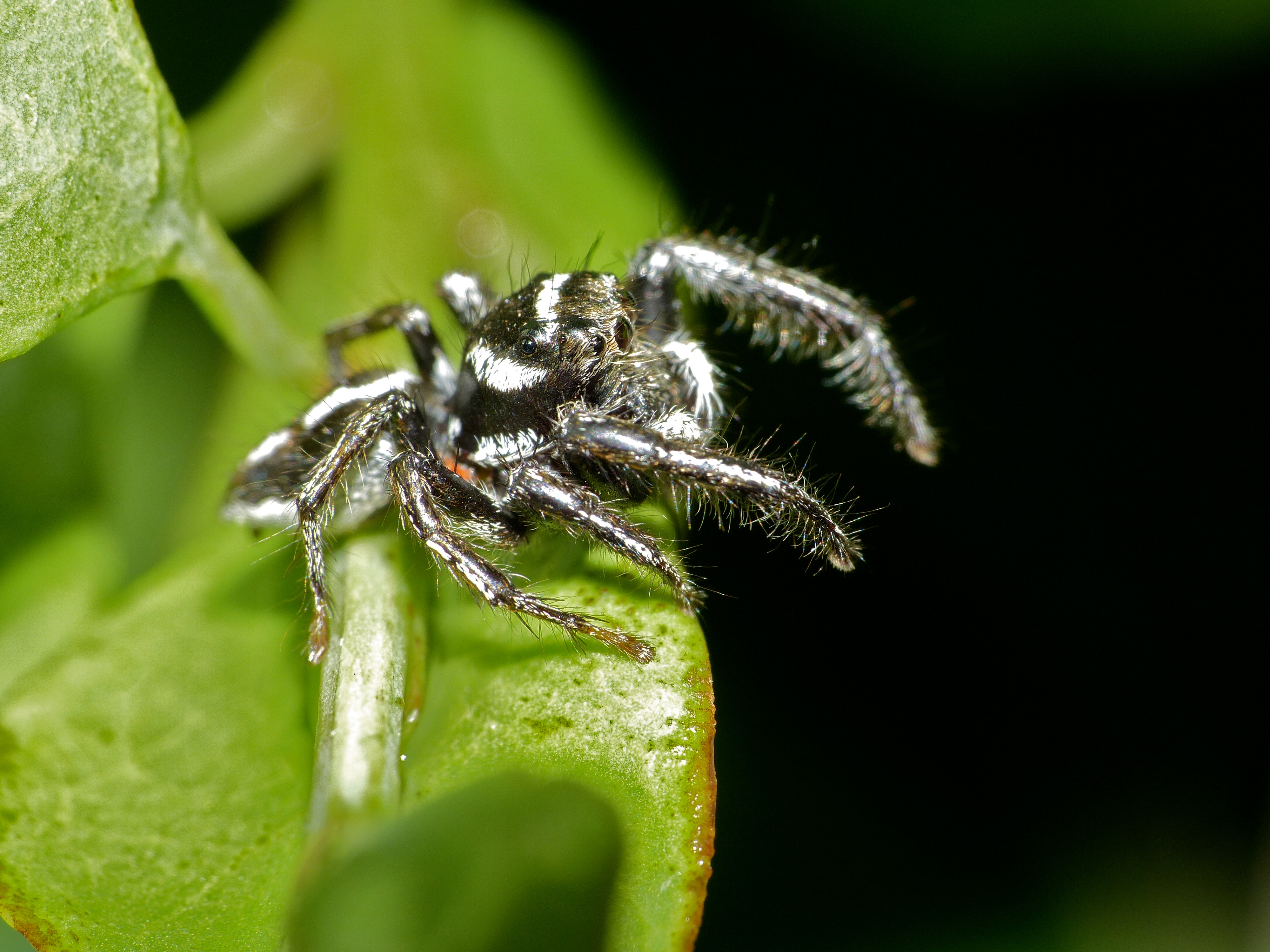 Tamboti Tented Camp, Kruger NP, SOUTH AFRICA